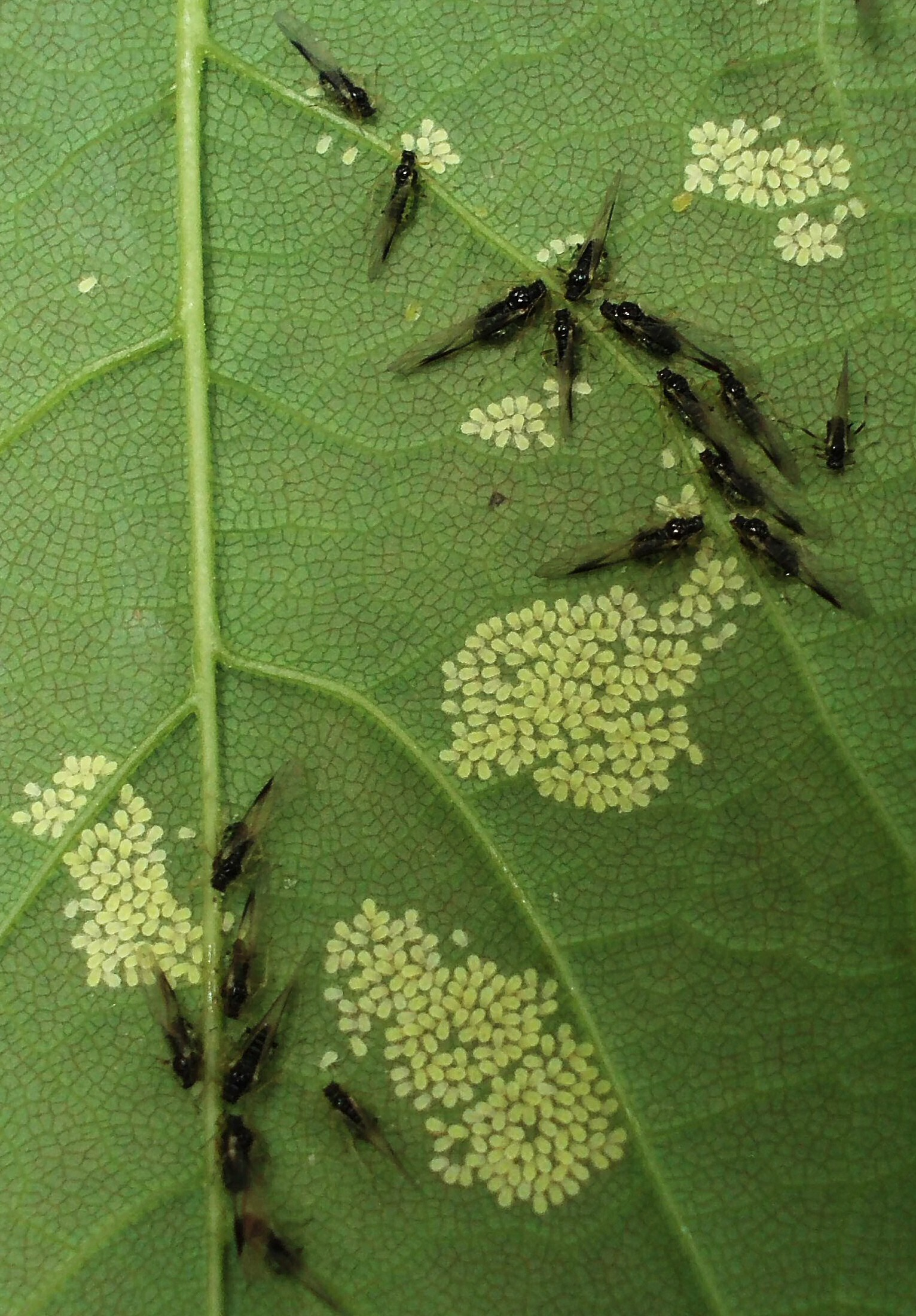 Adult Aphids (probably all female) and live young on underside of a Sycamore leaf, forming a natural pattern of the young grouped close to where they were born, each with a small patch of leaf to feed on.